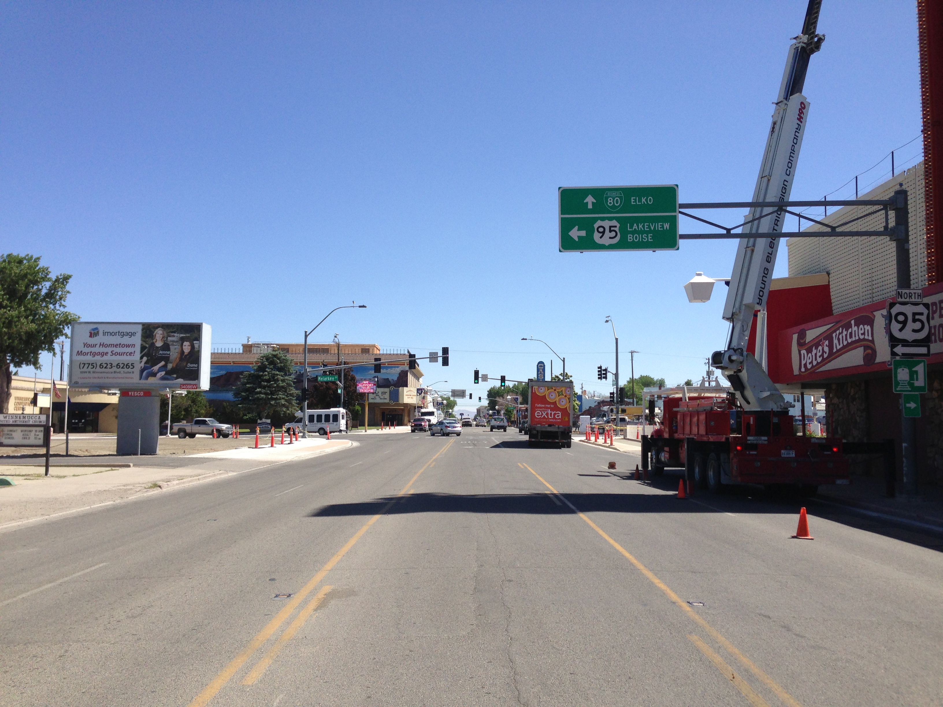 View north along U.S. Route 95 (West Winnemucca Boulevard) near Melarkey Street and Nevada State Route 289 (Winnemucca Boulevard) in Winnemucca, Nevada